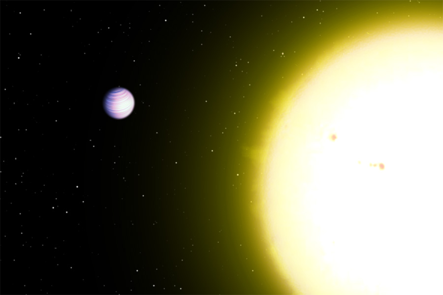 illustration by me user debivort may 07